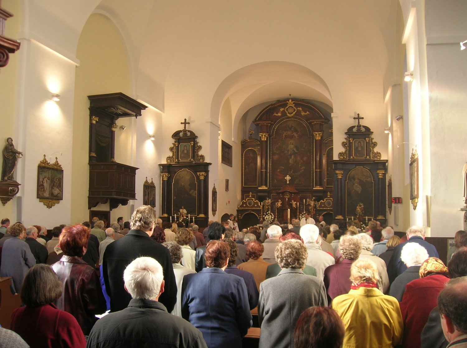 Třebíč-Jejkov. Transfiguration church